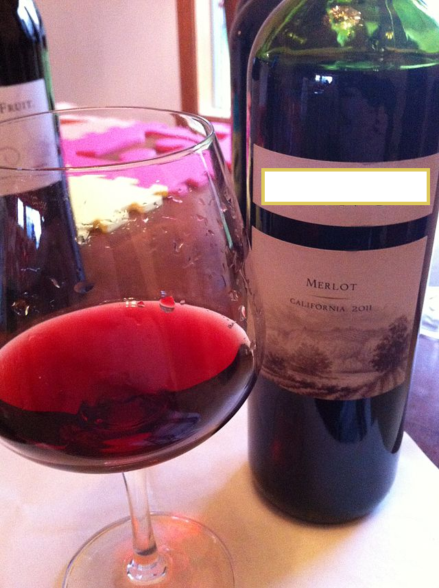 Derivitive of my own work of File:California merlot.jpg with box to block out winery name